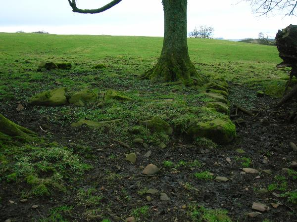 Foundations at the Hill of Beith Castle site, Beith, North Ayrshire, Scotland